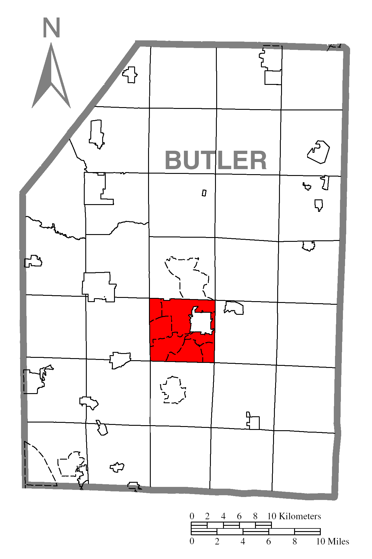 A map of Butler County showing Butler Township, Pennsylvania (alternate) highlighted on the map.